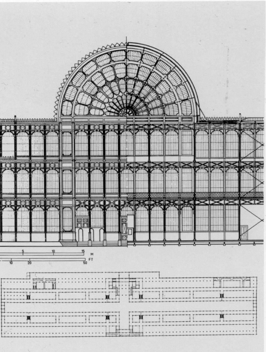 Part front (lh) and part rear (rh) view and overview of London's Crystal Palace (Paxton)